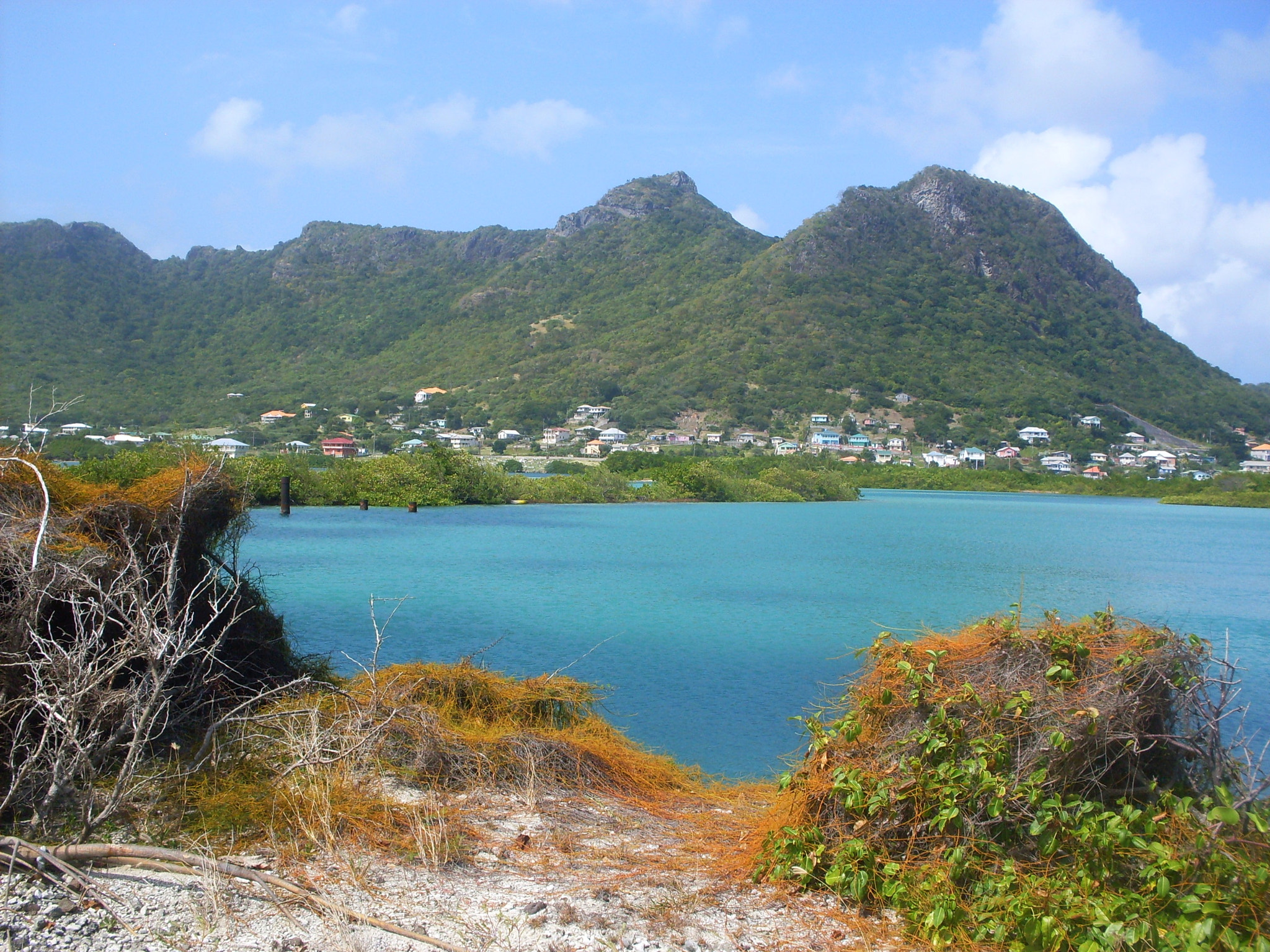 500px provided description: Some lovely warm and cool colour contrasts. [#Seascape ,#Union Island ,#Ashton Bay]